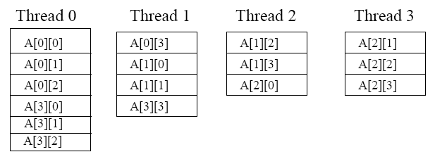 Рис. 4. THREADS = 4